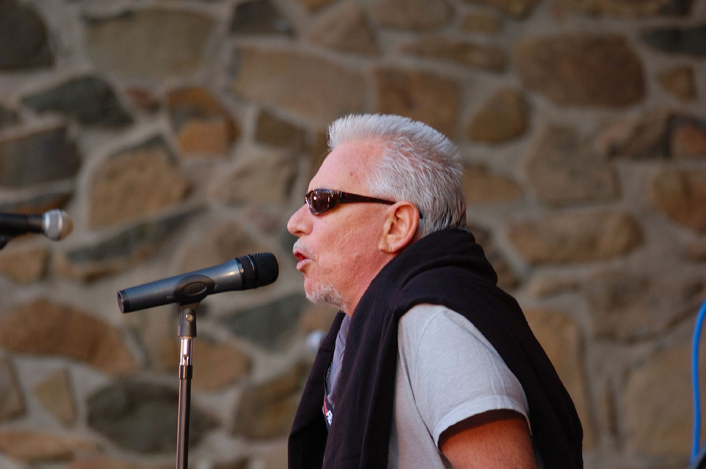 Eric Burdon at the Daffodil Festival in Pierce County, Washington in 2008.